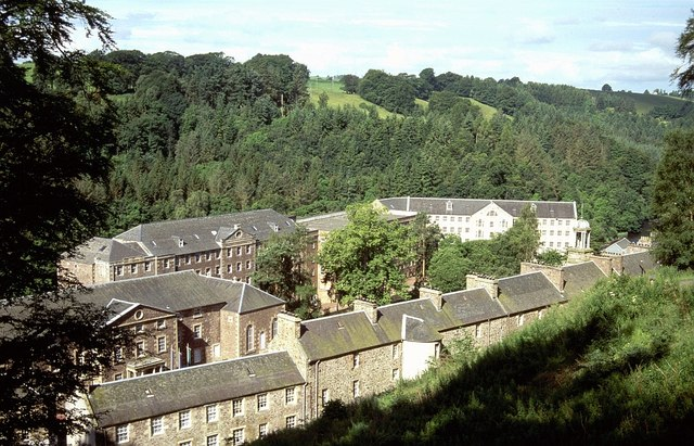 New Lanark. A similar view to 1249460. The building facing the camera is a hotel, and is across a gridline in NS8742.